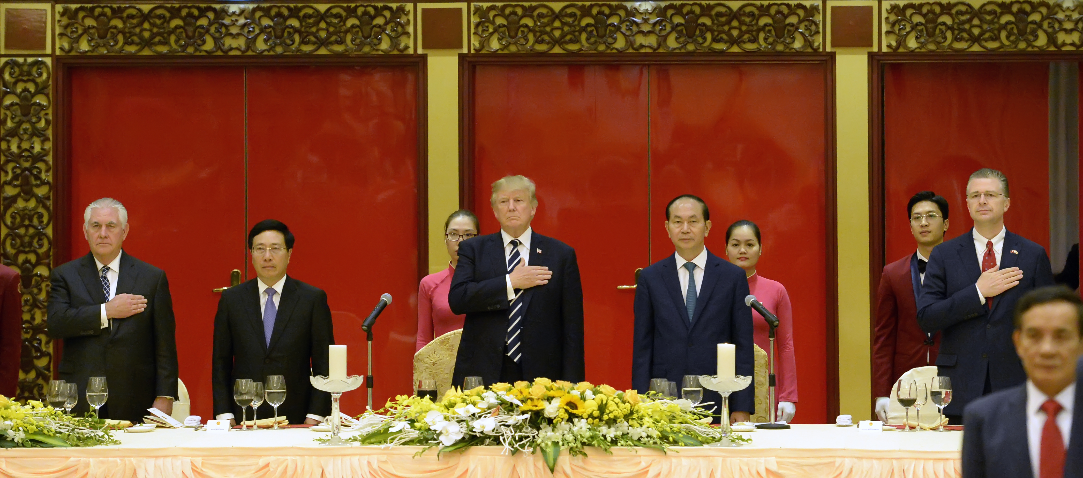 U.S. Secretary of State Rex Tillerson joins President Donald J. Trump and Vietnamese leaders in standing as the national anthems of both countries are played at a State Dinner hosted by President Tran Dai Quang in Hanoi, Vietnam on November 11, 2017. [State Department Photo/ Public Domain]